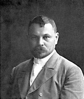 Carl Westman (1866-1936), architect, Portrait c. 1900